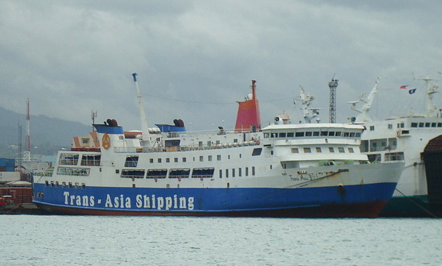 Trans-Asia ship — MV Trans-Asia 3